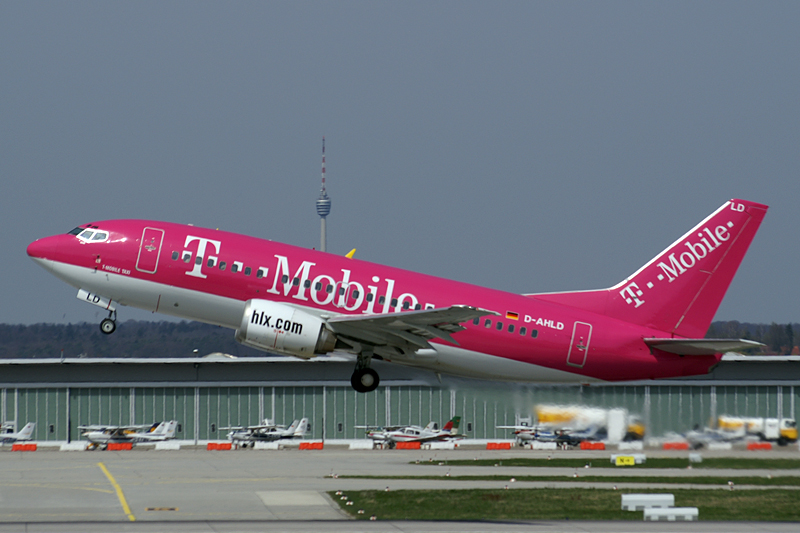 HLX T-Mobile logojet D-AHLD Boeing 737-500. Hapag-Lloyd Express. At Stuttgart (STR/EDDS) (1720) 48.69° N 9.21° O